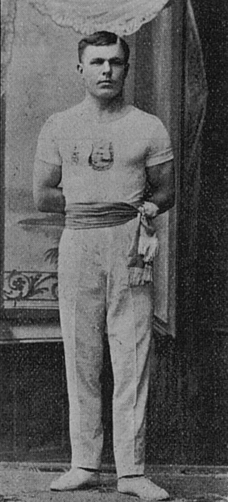 Riku Korhonen, Finnish Olympic gymnast, circa 1907